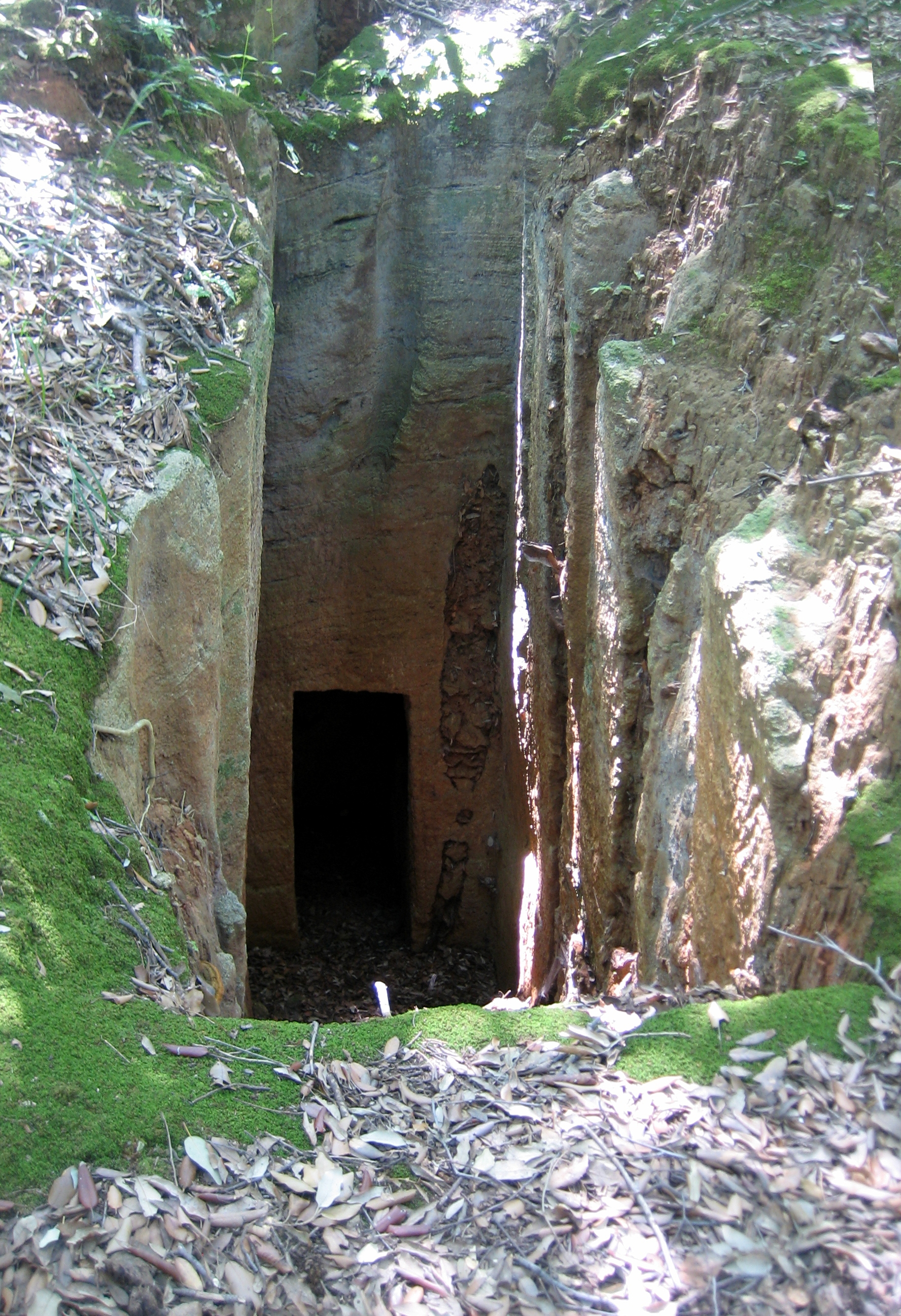 Etruscan sepulchre in the "Parco Archeologico di Baratti e Populonia" in Tuscany in Italy.